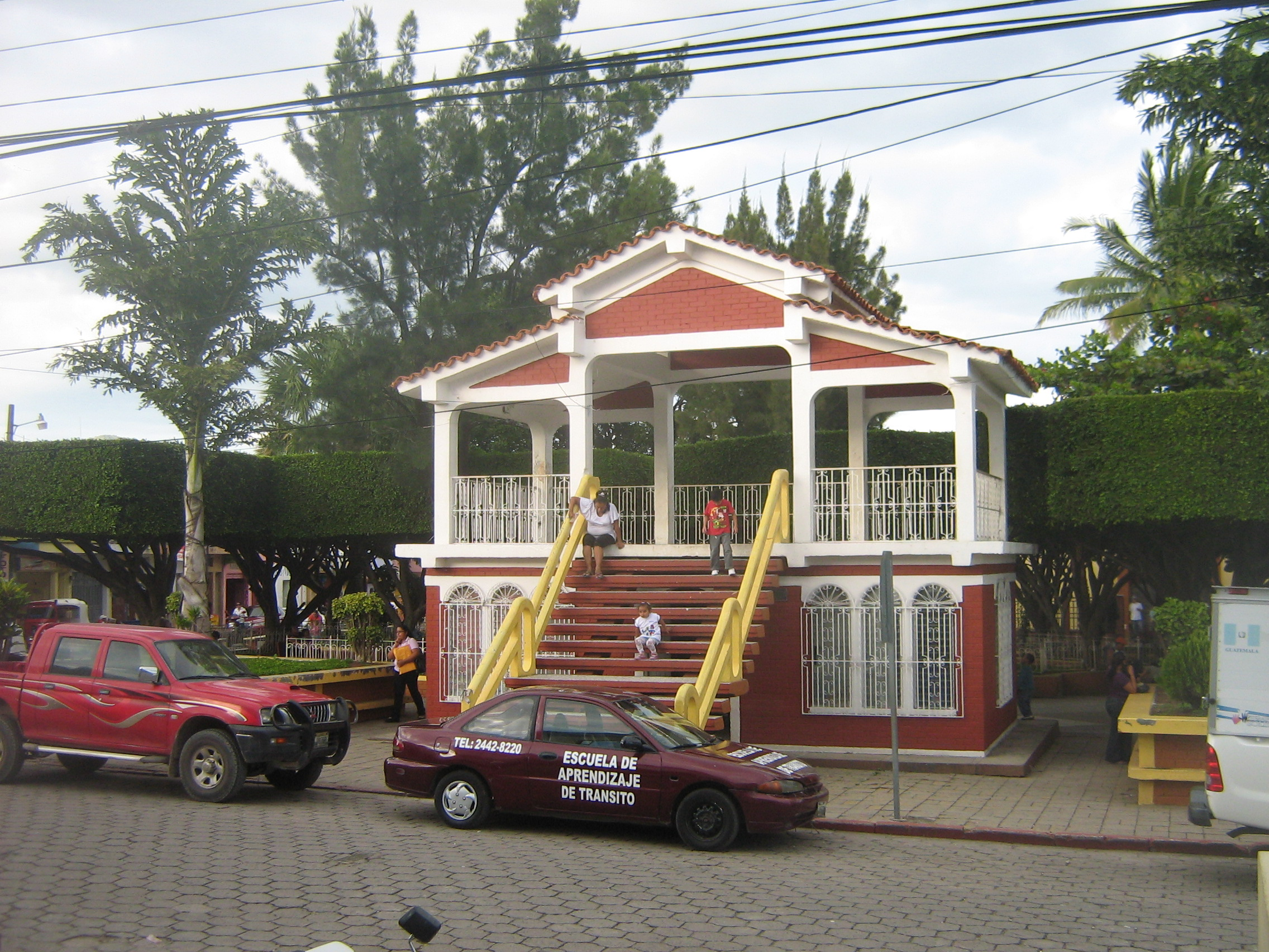 Central Park is the town of El Progreso. You can see the kiosk in front is just in front of City Hall and can be seen behind the church.